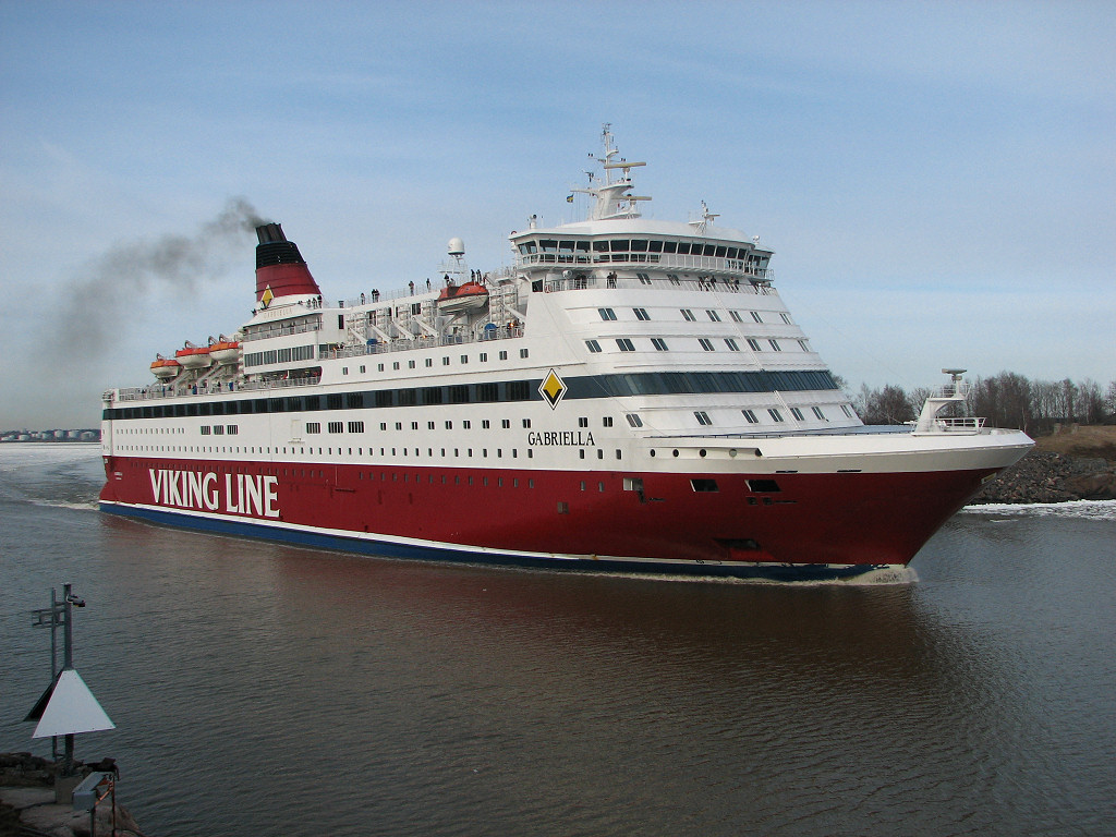 M/S Gabriella in front of Helsinki, Finland.